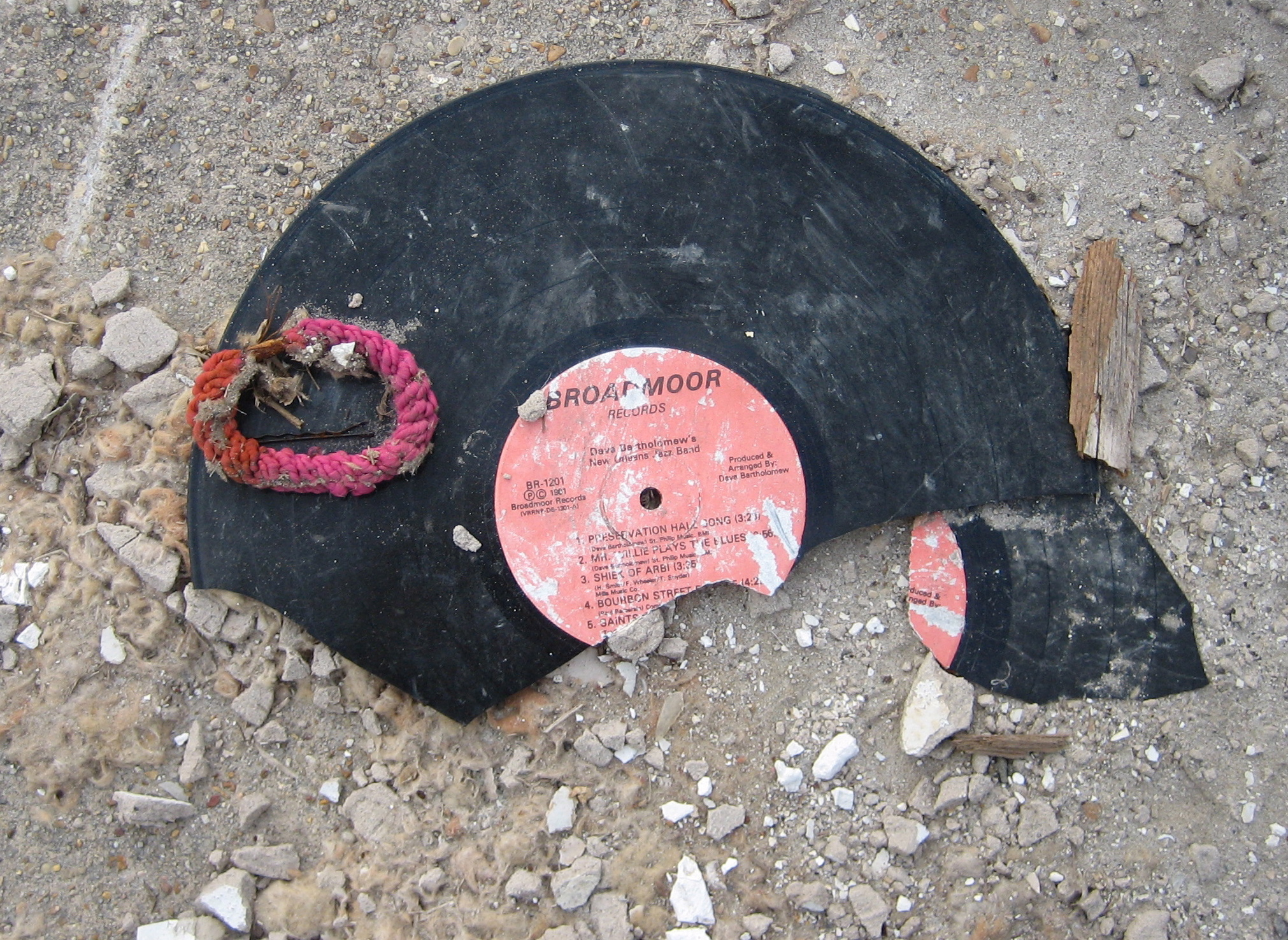 Hurricane Katrina aftermath in New Orleans: Flood damaged Broadmoor neighborhood. Debris includes broken gramophone record of the local Broadmoor label.